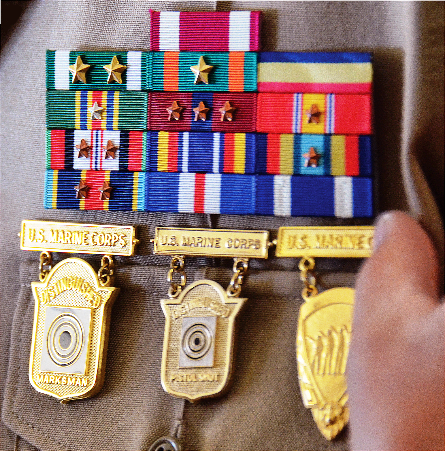 Example of U.S. Marksmanship Competition Badges as worn on a U.S. Marine Corps Uniform.Image Caption: Chief Warrant Officer Scott W. Richards is awarded his second distinguished shooting medal following the 2013 Far East Division Matches award ceremony Feb. 1 at the Camp Hansen theater. Richards is one of approximately 50 double-distinguished marksmen on active-duty in the Marine Corps. He is the captain of the Marine Corps Base Camp Butler shooting team, Marine Corps Installations Pacific.